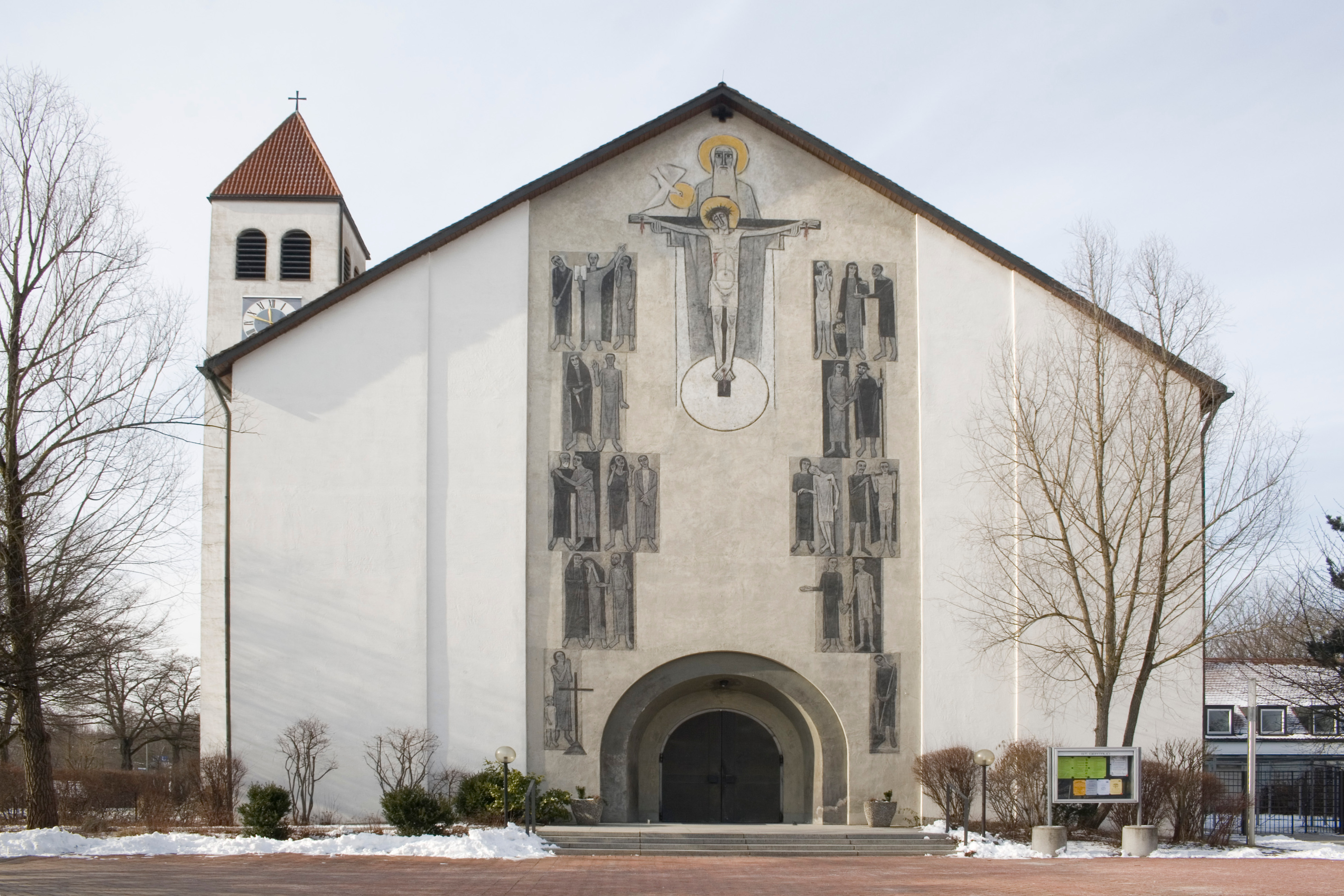 Church St. Gretrud, Munich, Germany